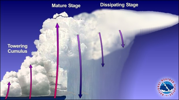 While each individual thunderstorm cell, in a multi-cell cluster, behaves as a single cell, the prevailing atmospheric conditions are such that as the first cell matures, it is carried downstream by the upper level winds with a new cell forming upwind of the previous cell to take its place.